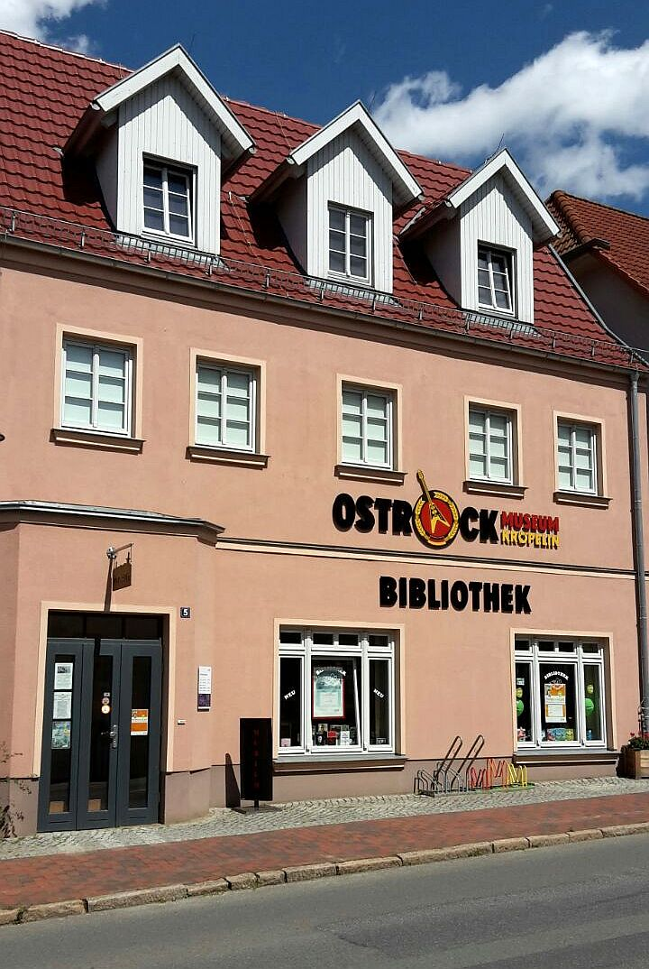 Building Hauptstraße Nr. 5 in Kröpelin contains Library, City Museum and the Ostrockmuseum opened on 3. July 2015.